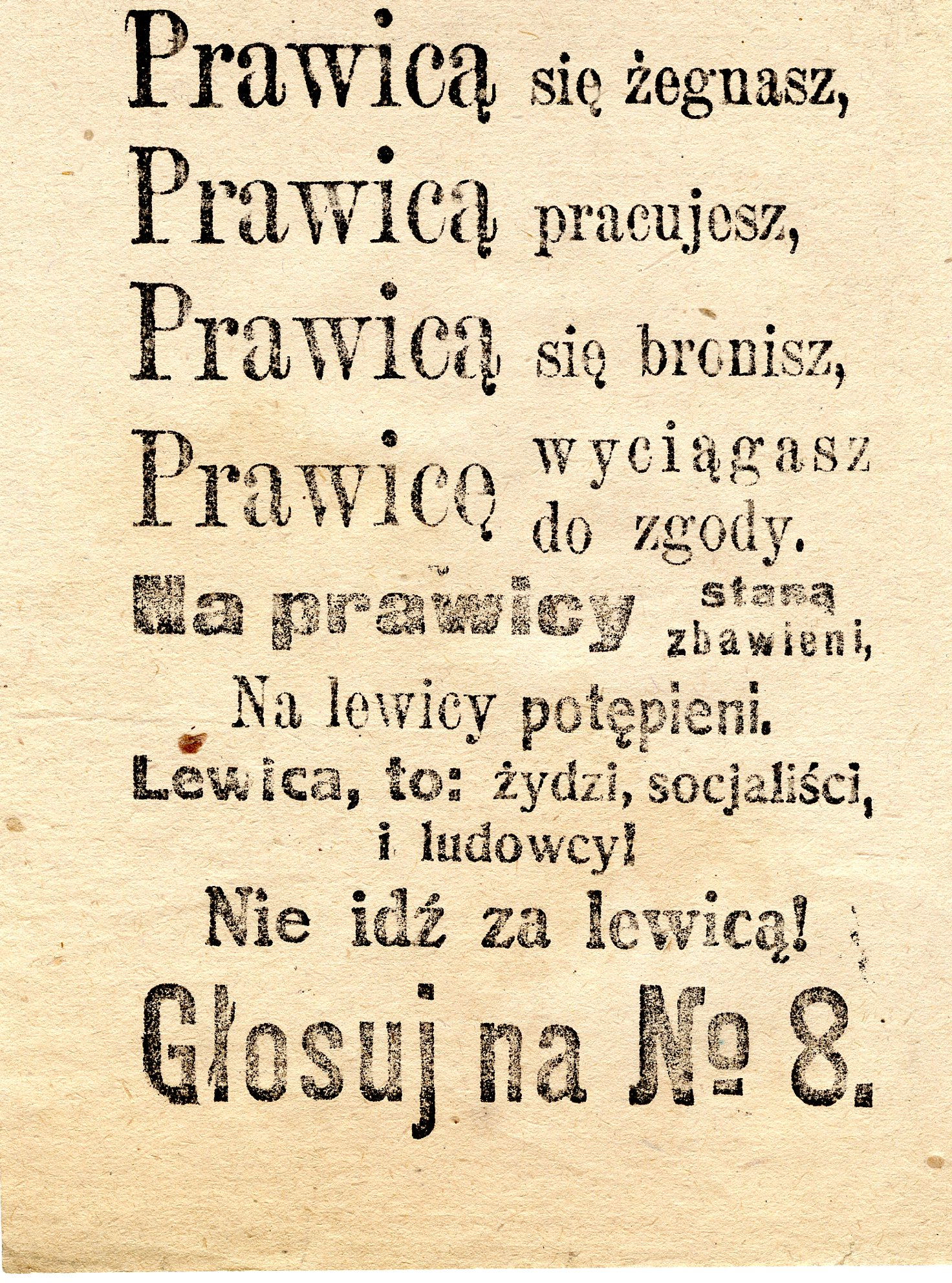 Elections, Poland, pre-1939. Right-wing party poster. Possibly part of the same elections (to Rada Akademicka) as most other documents uploaded in that batch.